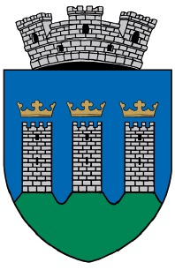 Coat of arms of Rupea, Brașov County, Romania.